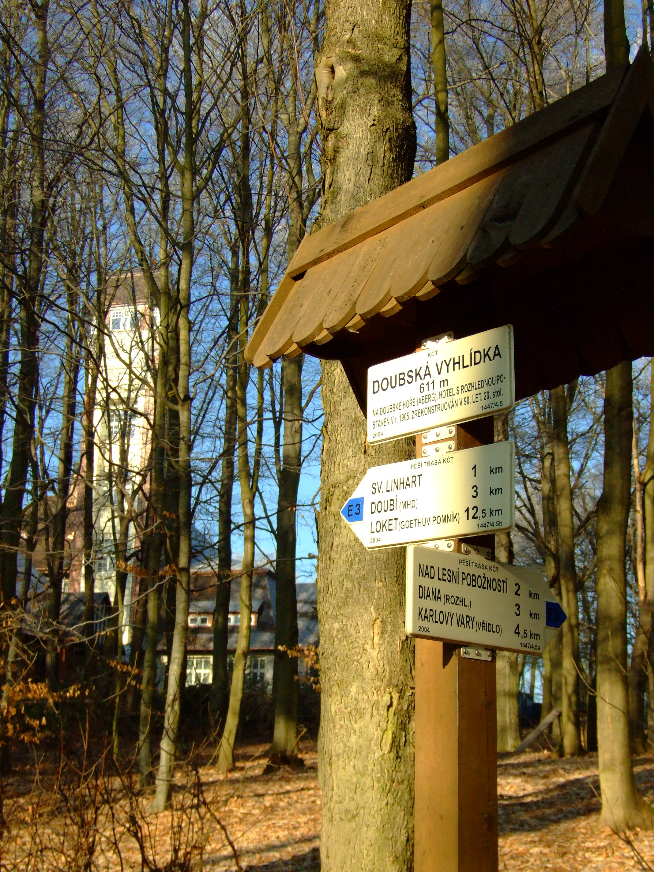 Doubská vyhlídka lookout tower near Karlovy Vary, Karlovy Vary Region, CZ. E3 European long distance tourist path can be seen marked on a blue stripe standard Czech tourist pathhelp